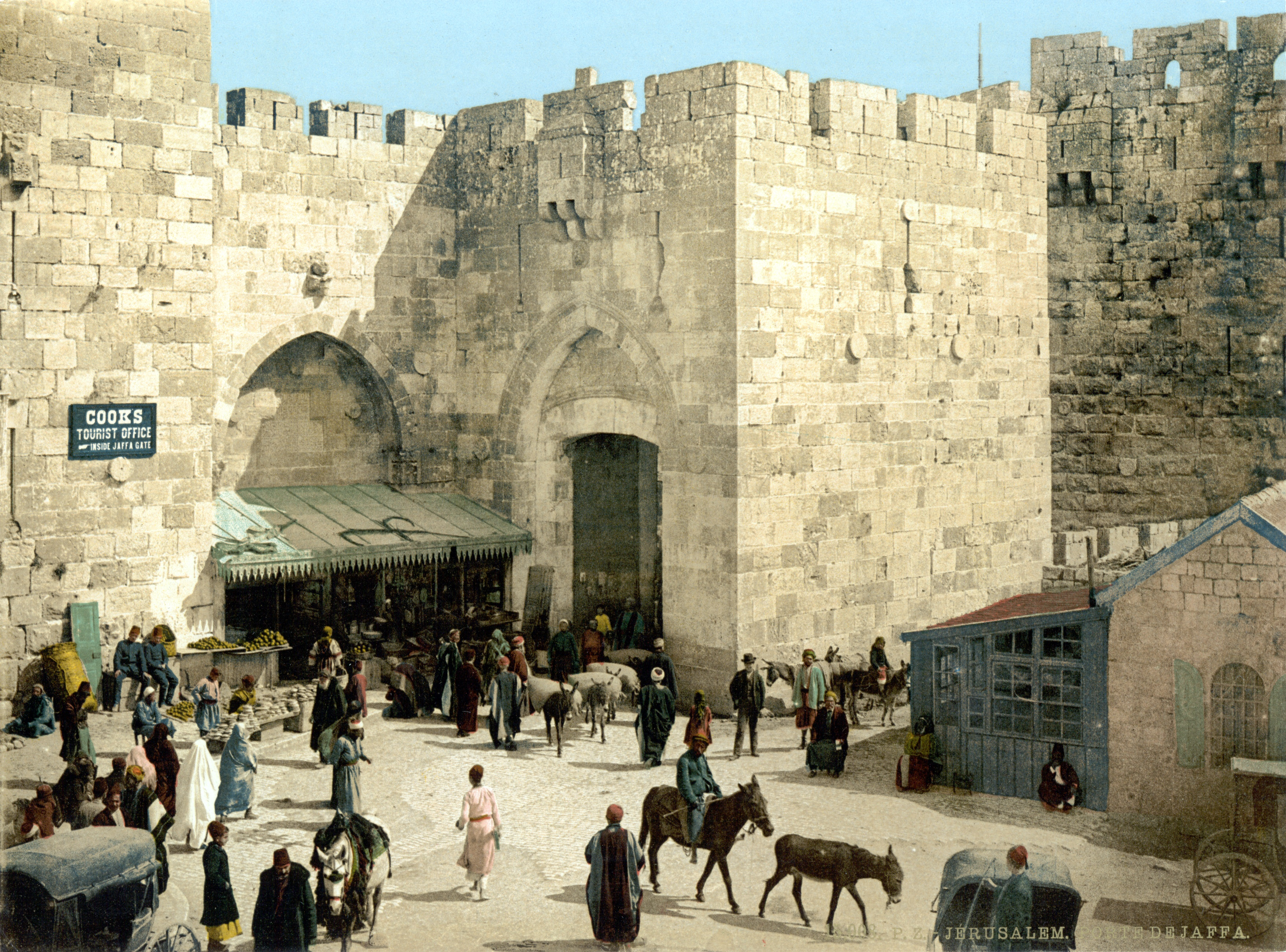 The Jaffa Gate, Jerusalem.